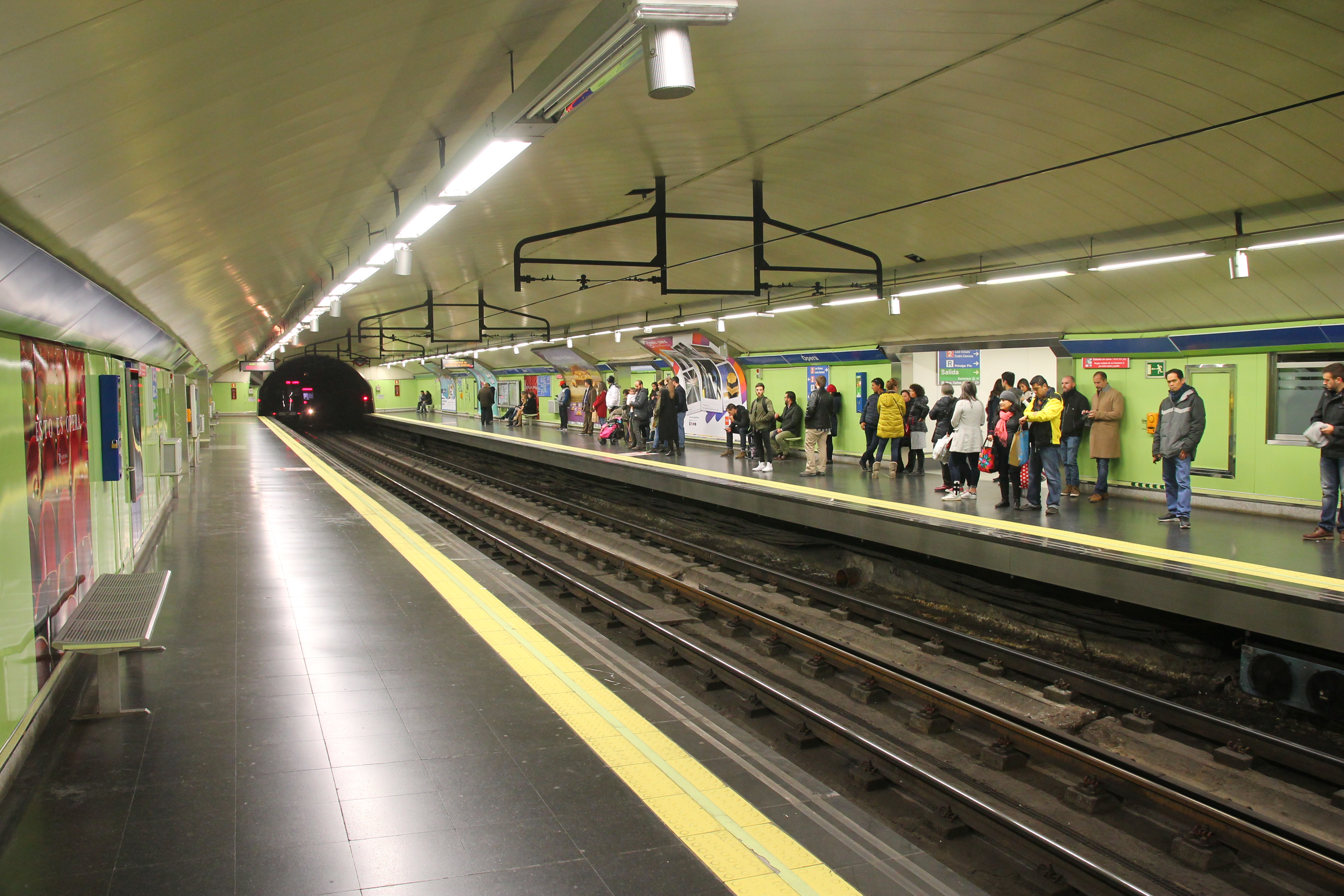 Estación de Ópera